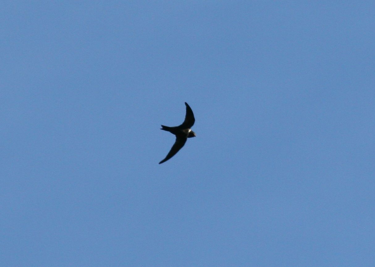 White-collared Swift (Streptoprocne zonaris)